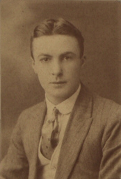 Description: E.O. Rutter. Our Catalogue Reference: Part of CO 1069/520. This image is part of the Colonial Office photographic collection held at The National Archives. Feel free to share it within the spirit of the Commons. Please use the comments section below the pictures to share any information you have about the people, places or events shown. We have attempted to provide place information for the images automatically but our software may not have found the correct location. For high quality reproductions of any item from our collection please contact our image library